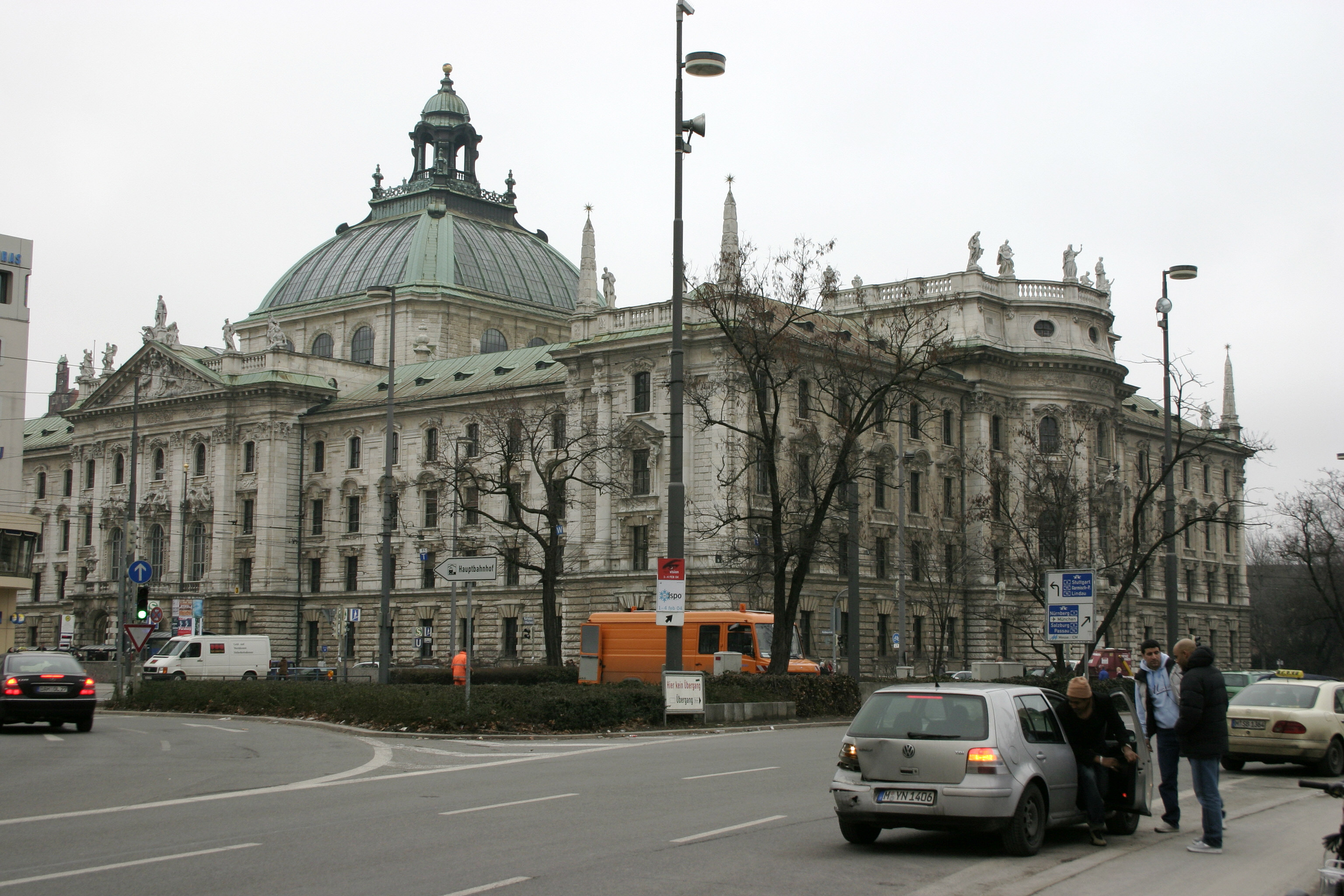 Munich – Justizpalast